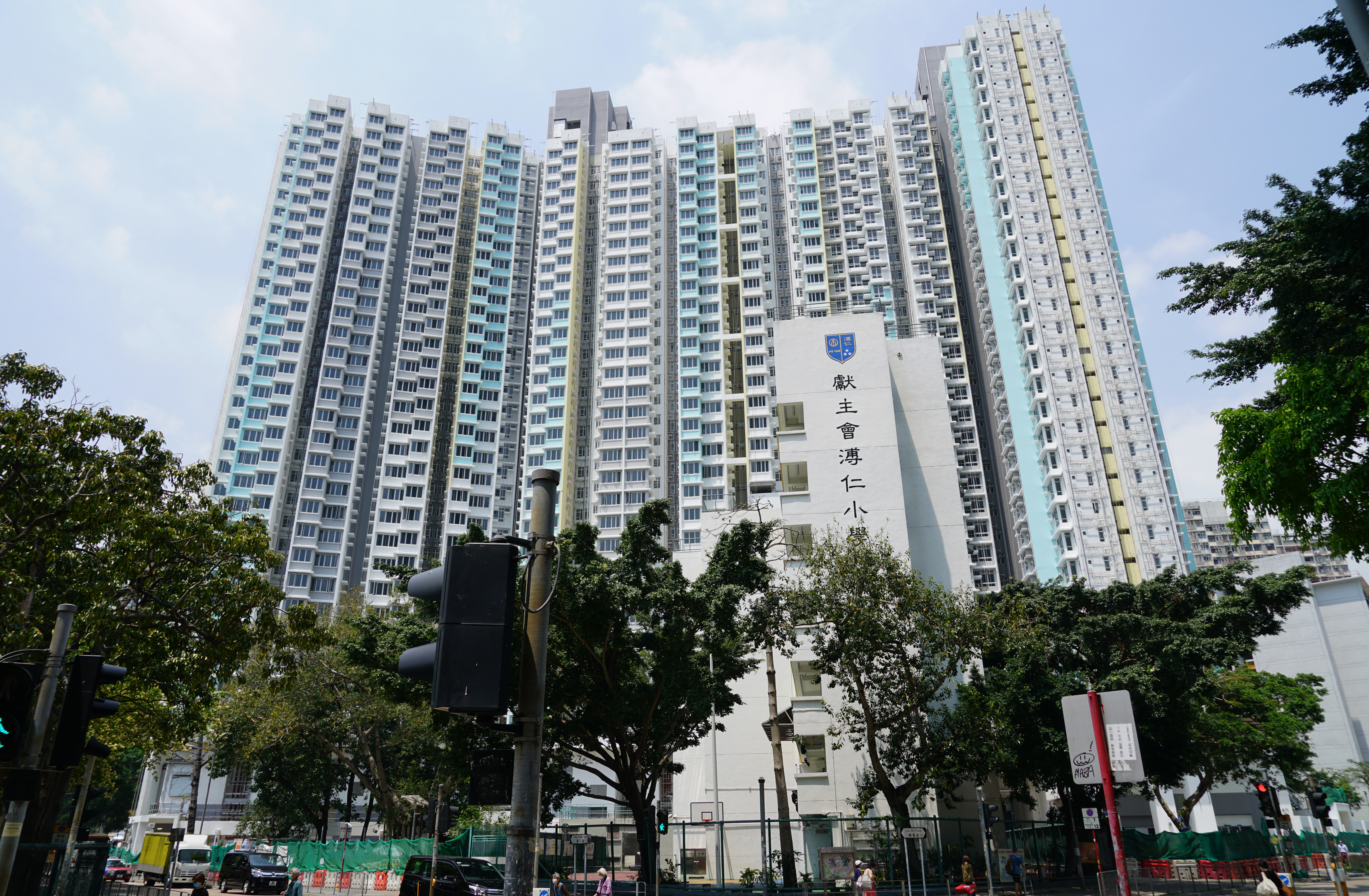 Tung Wui Estate, Hong Kong.